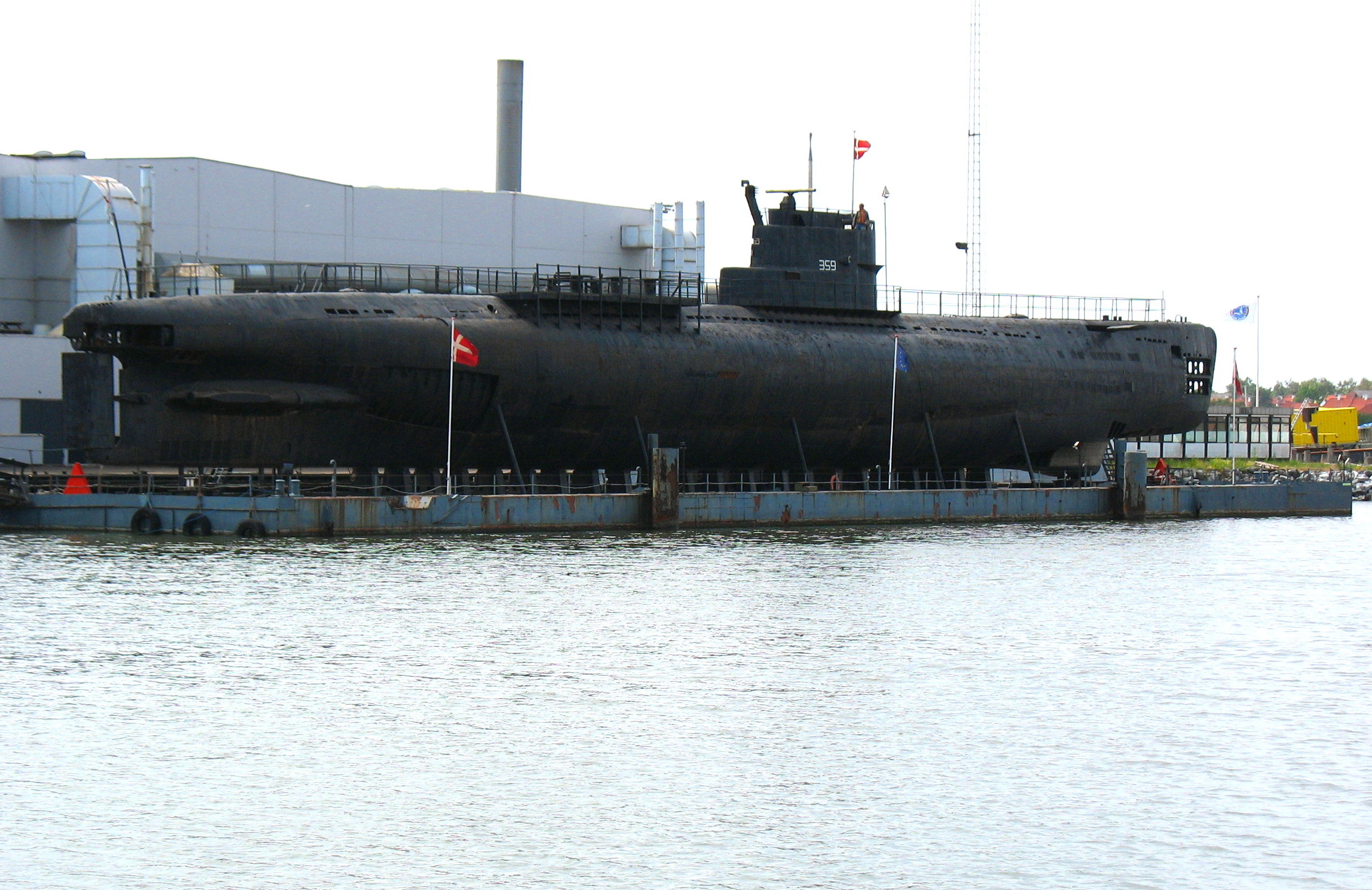 The submarine "U-359" (former Soviet submarine) now submarine museum located in the habour of the town "Nakskov". It is on the island Lolland in east Denmark.